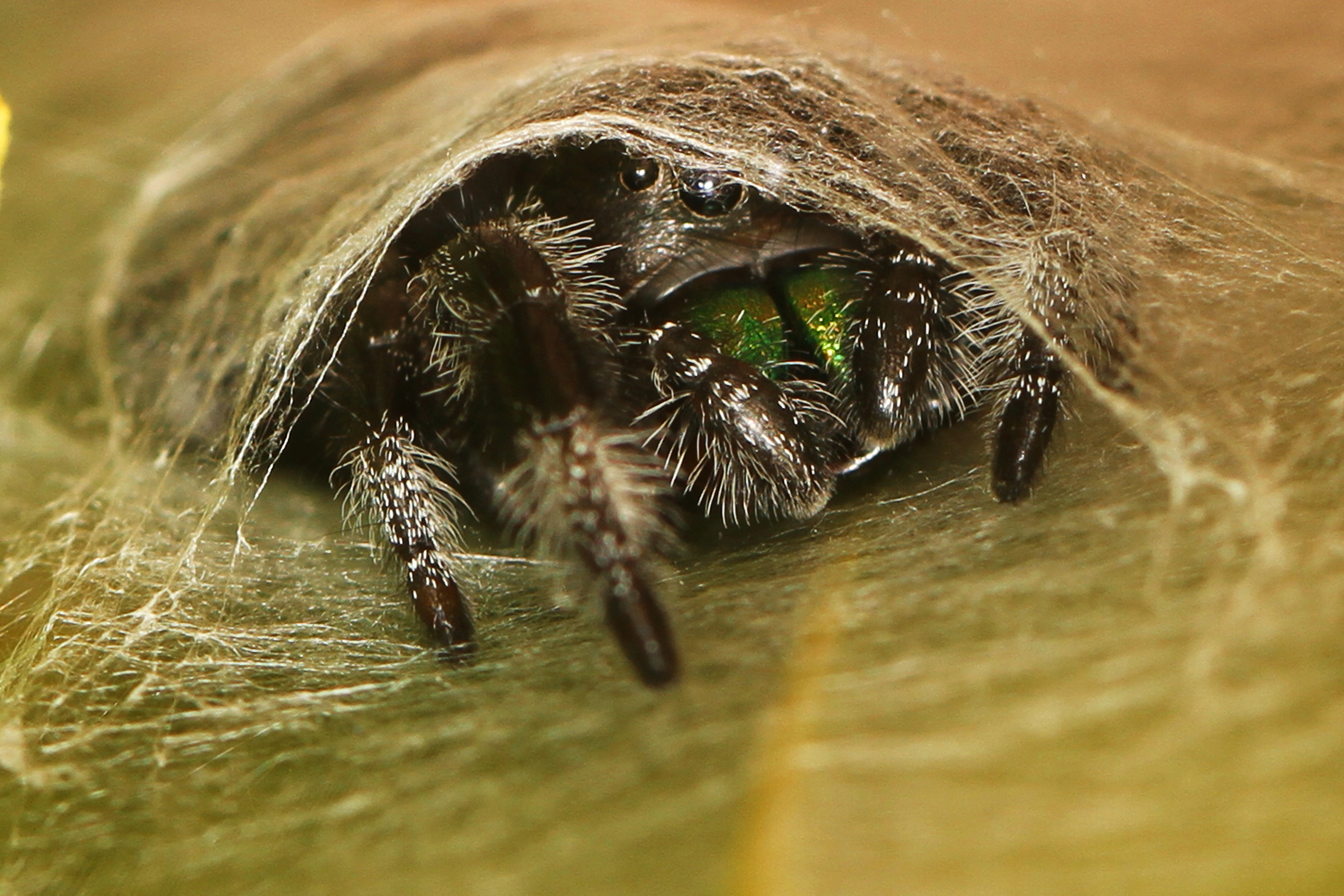 Jumping Spider - Phidippus regius, Okaloacoochee Slough State Forest, Felda, Florida